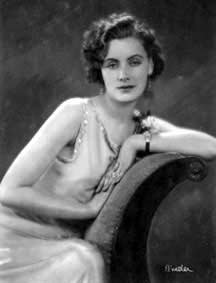 Greta Garbo in The Joyless Street (Die freudlose Gasse). Alexander Binder (for Atelier Binder) made the portrait during the filming.